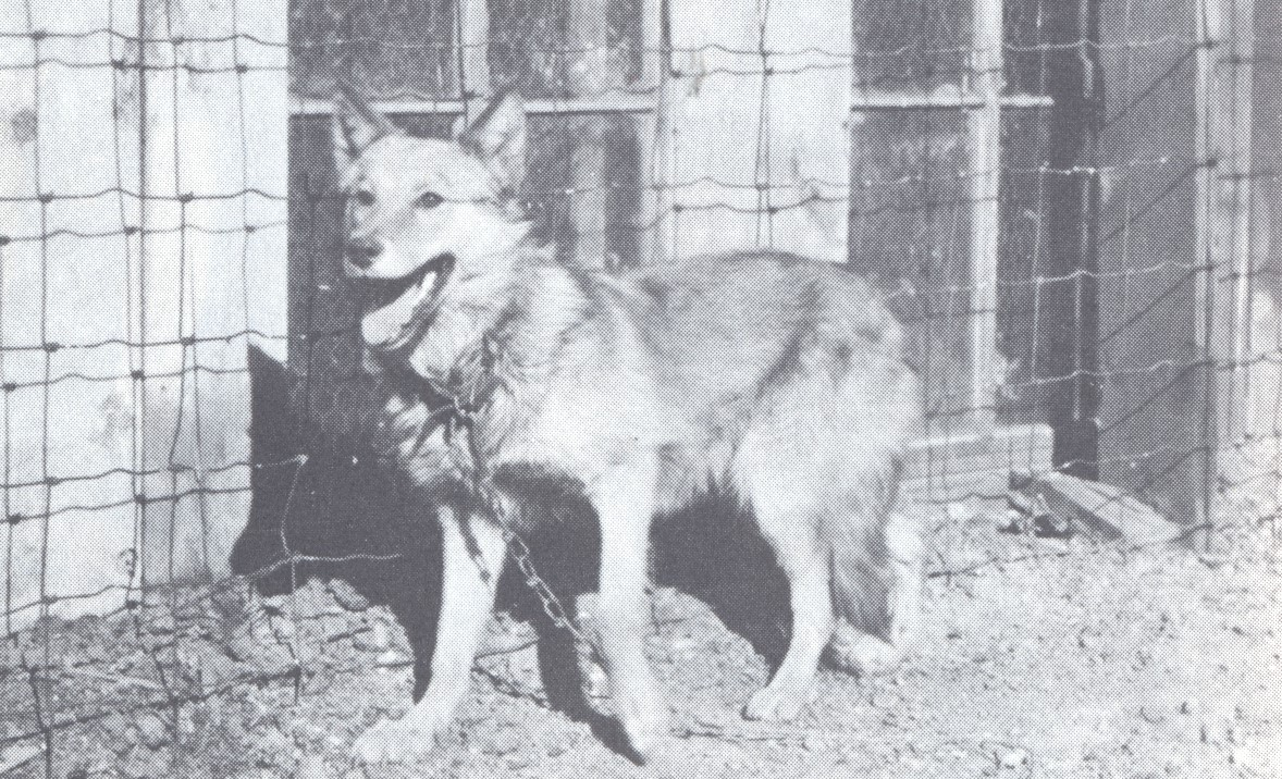 Female offspring of a gray wolf and collie dog.